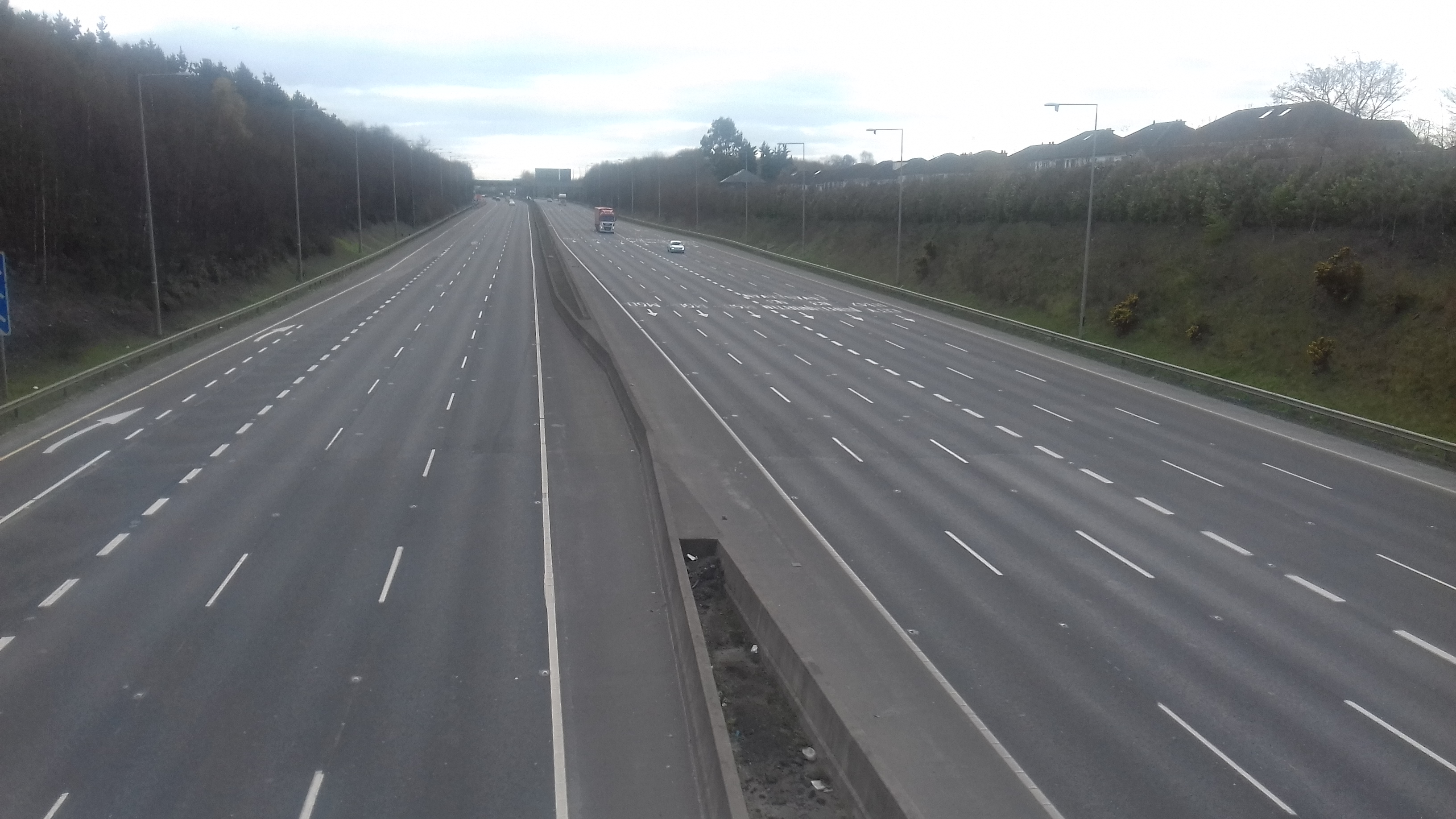 Normally at 4pm the M50 would be full of traffic on both carriageways but due to the government advised lockdown, people have decided to stay at home. The motorway is almost deserted. Next to junction 6 at Castleknock